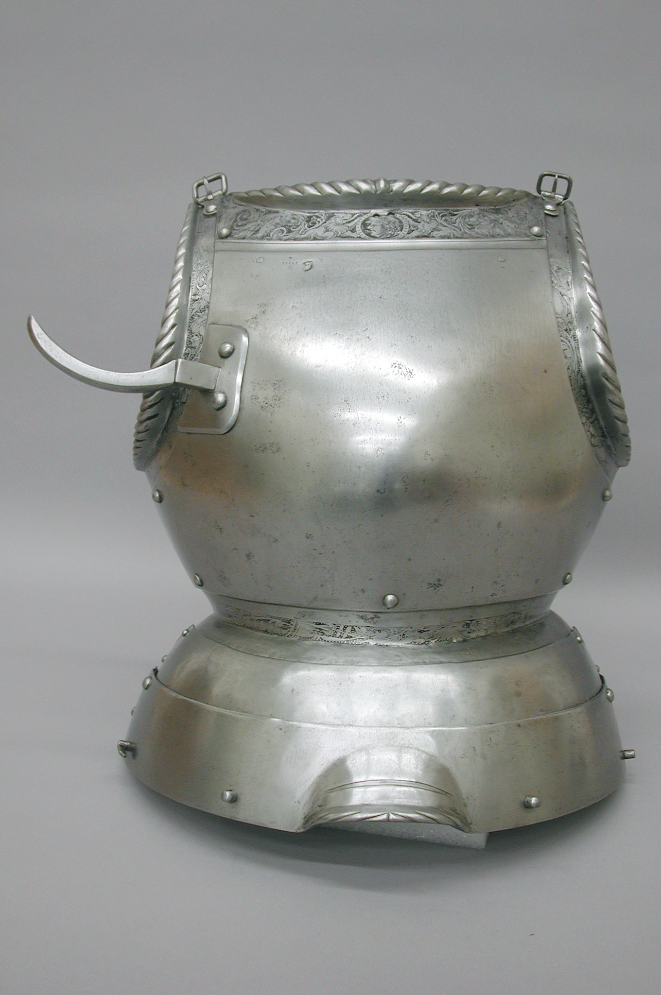 German, Nuremberg; Breastplate; Armor Parts-Breastplates